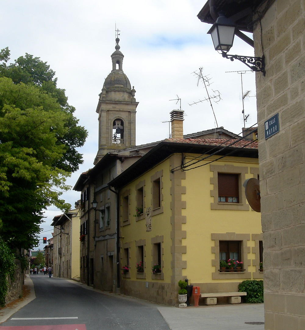 Berantevilla (Araba, Basque Country)